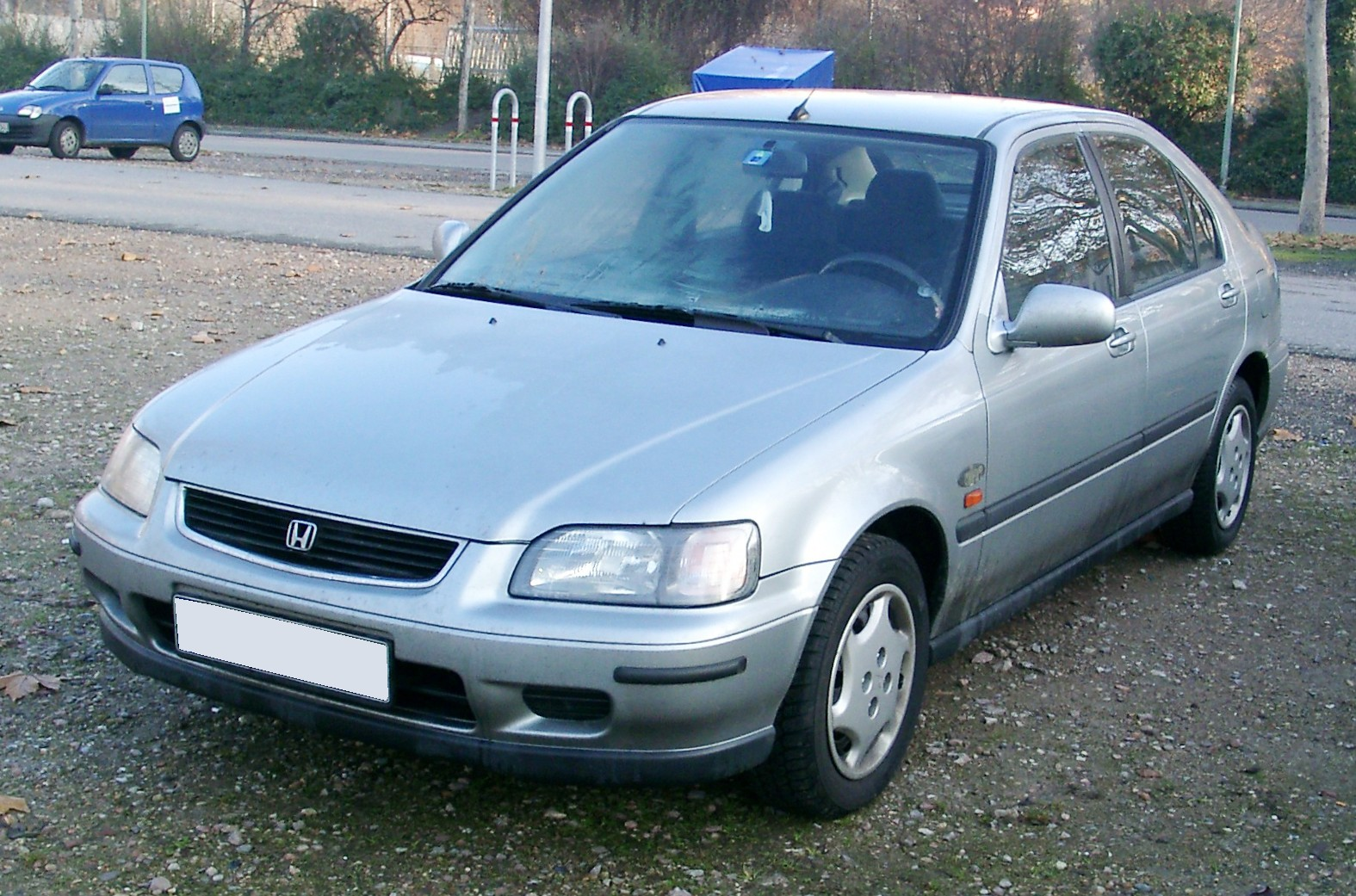 Honda Civic, 6. Generation